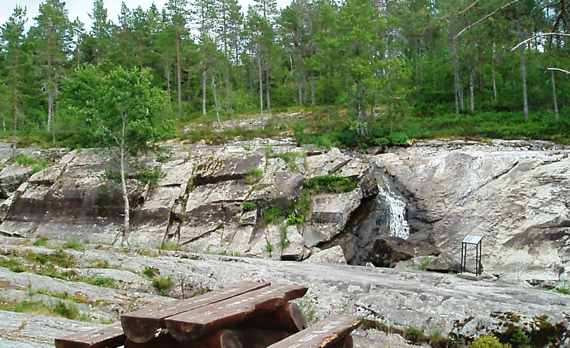 Overview from the Bølareinen (Bøla reindeer) rock carvings site in Steinkjer, Norway. Reindeer left to the small tree. Bear at right, near the signpost.